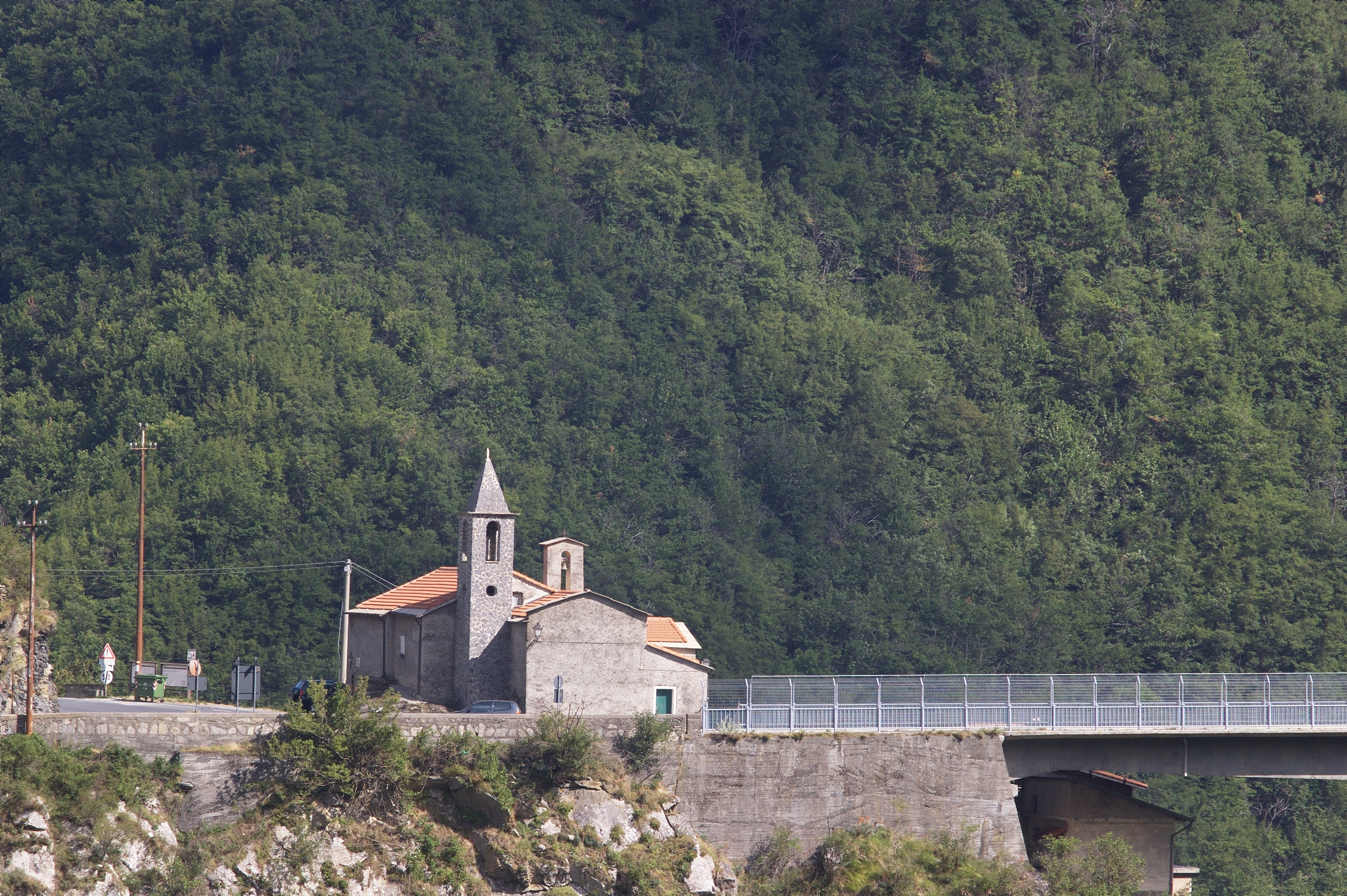 The church of Loreto (Triora, Italy)